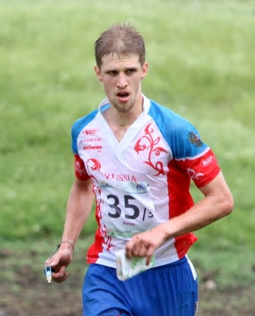 Alexey Bortnik (RUS) EOC 2010